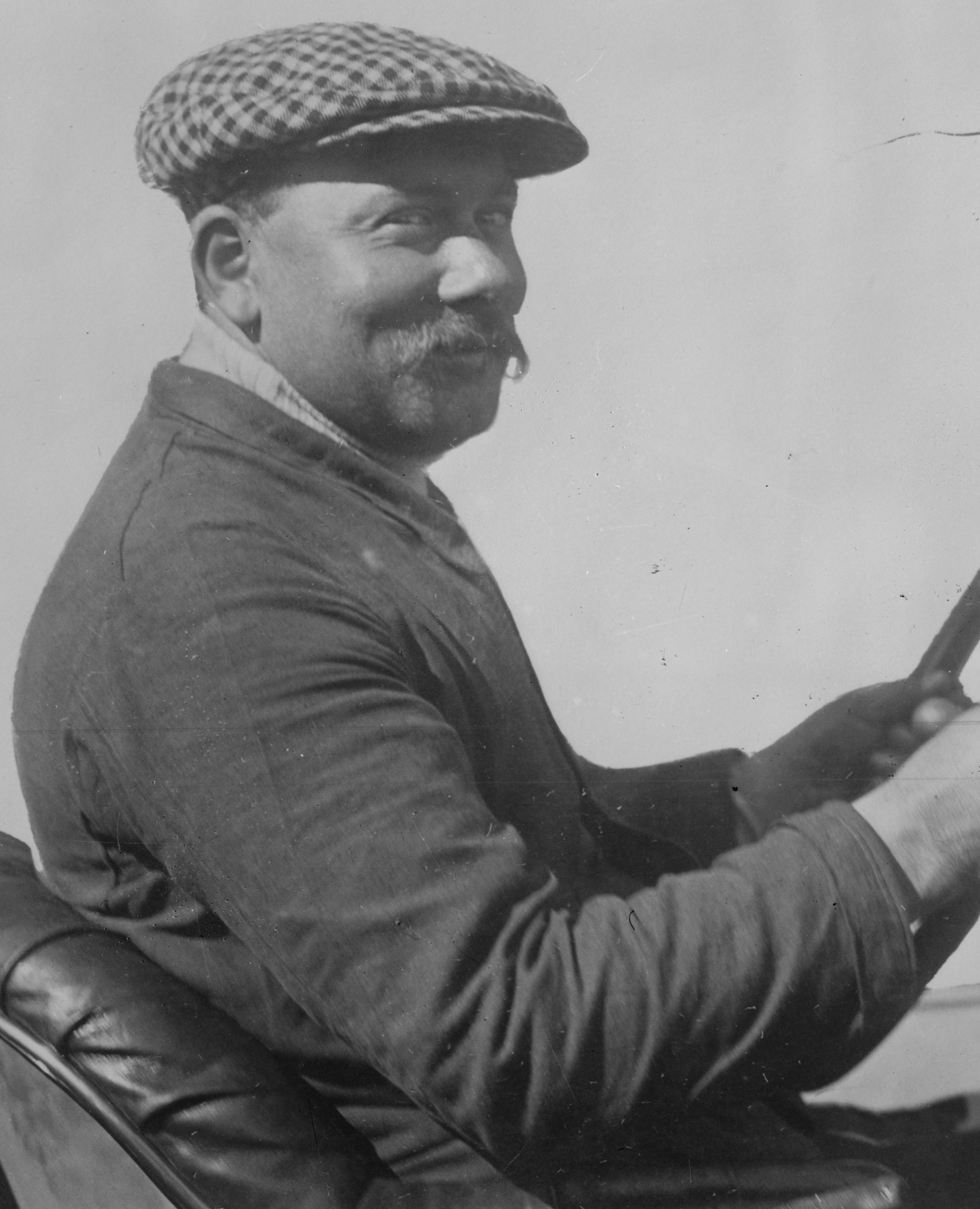 René Thomas at the 1914 Indianapolis 500 on Saturday, May 30, 1914